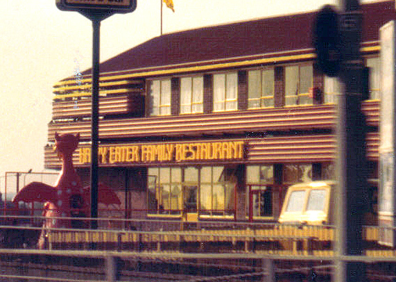 Happy Eater restaurant at Apex Corner, circa 1985.